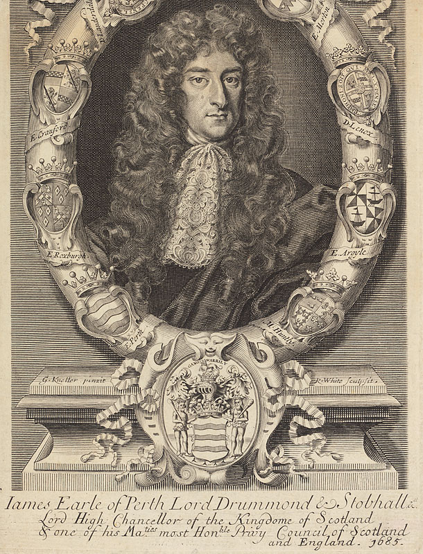 James Drummond, 4th Earl of Perth (1648-1716)